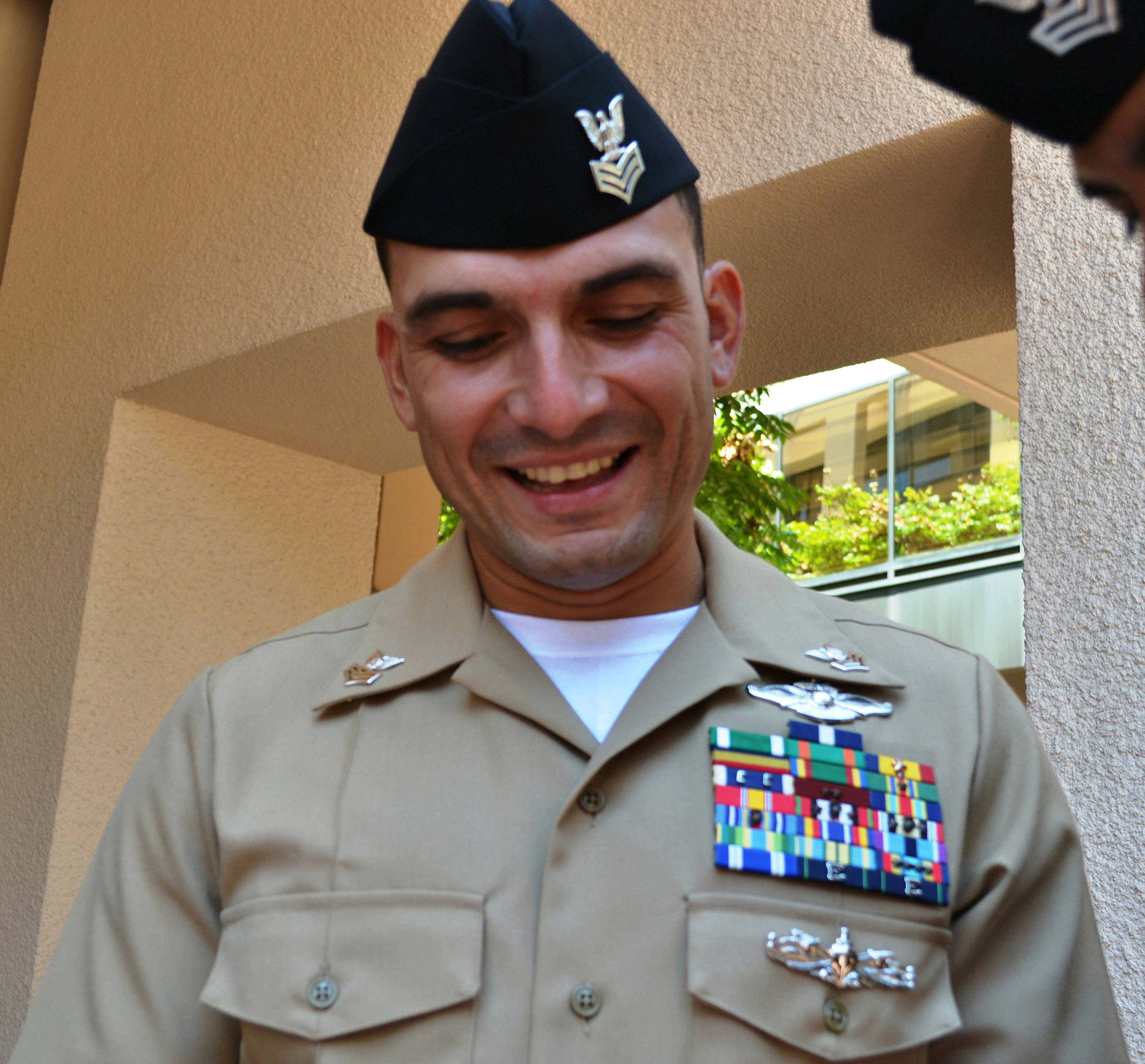 HM1 (FMF/SW) Luis E. Fonseca, Jr. in June 2012.